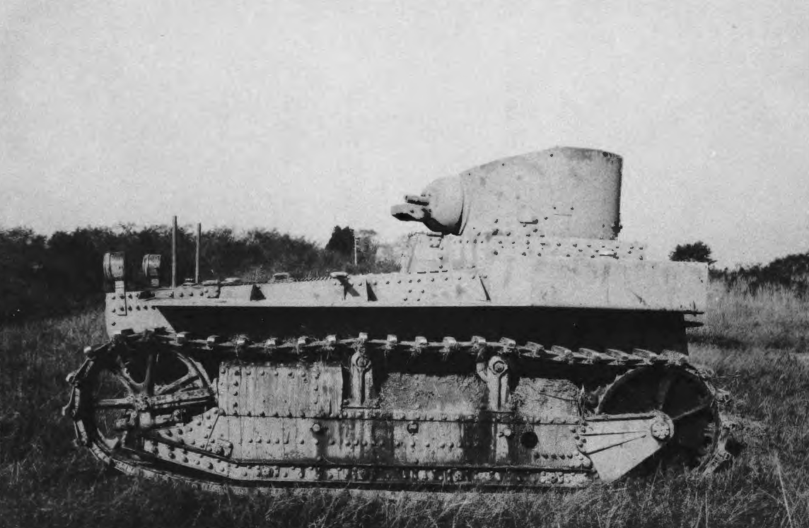 A Light Tank, T1E1, a U.S. Army light tank built in 1928. This was one of four T1E1 tanks to be built. Unlike the T1 prototype, the T1E1's hull did not protrude past its tracks. External fuel tanks were mounted above the tracks on either side.